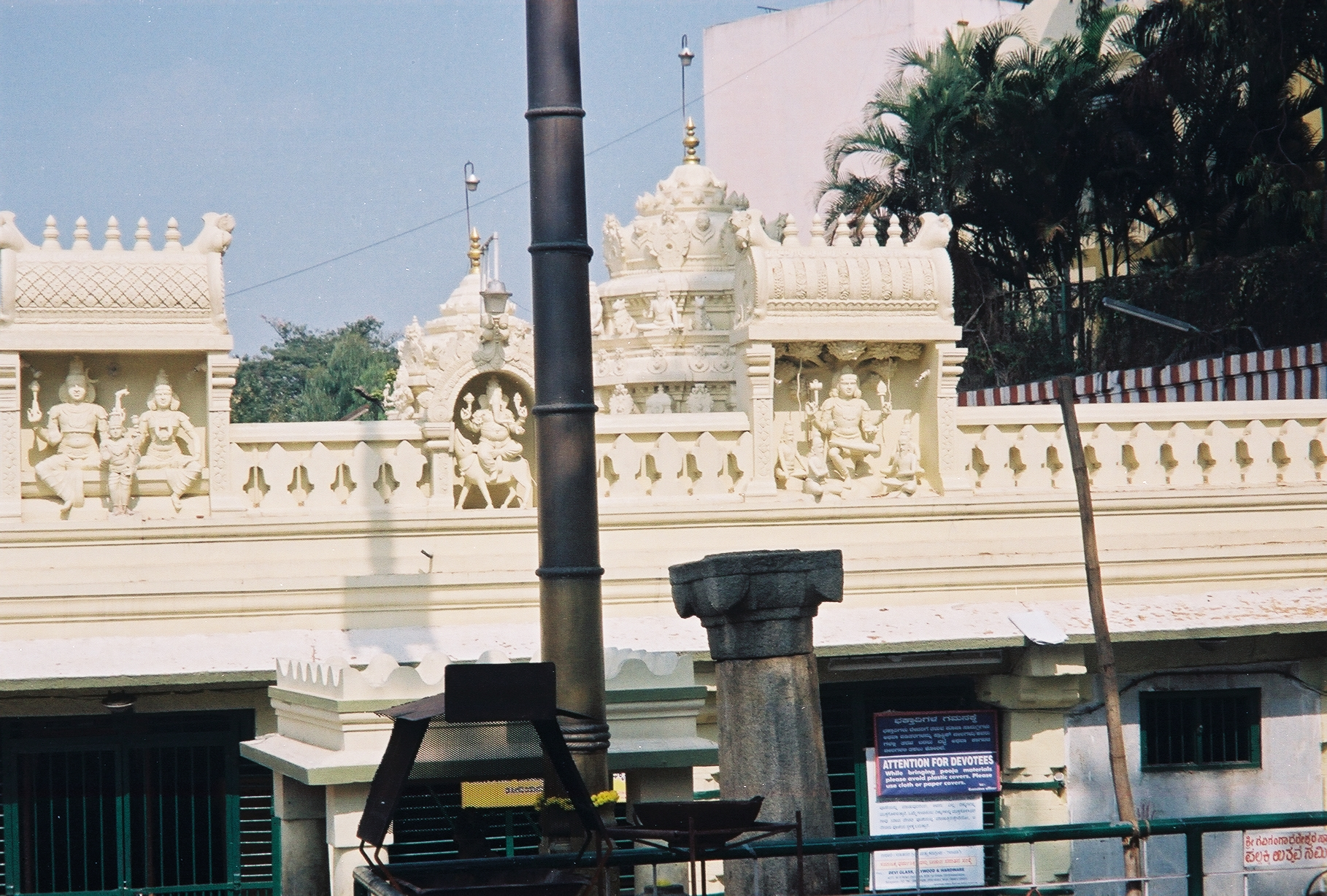 Sri Gavigangadareswara Temple - View of entrance to cave temple